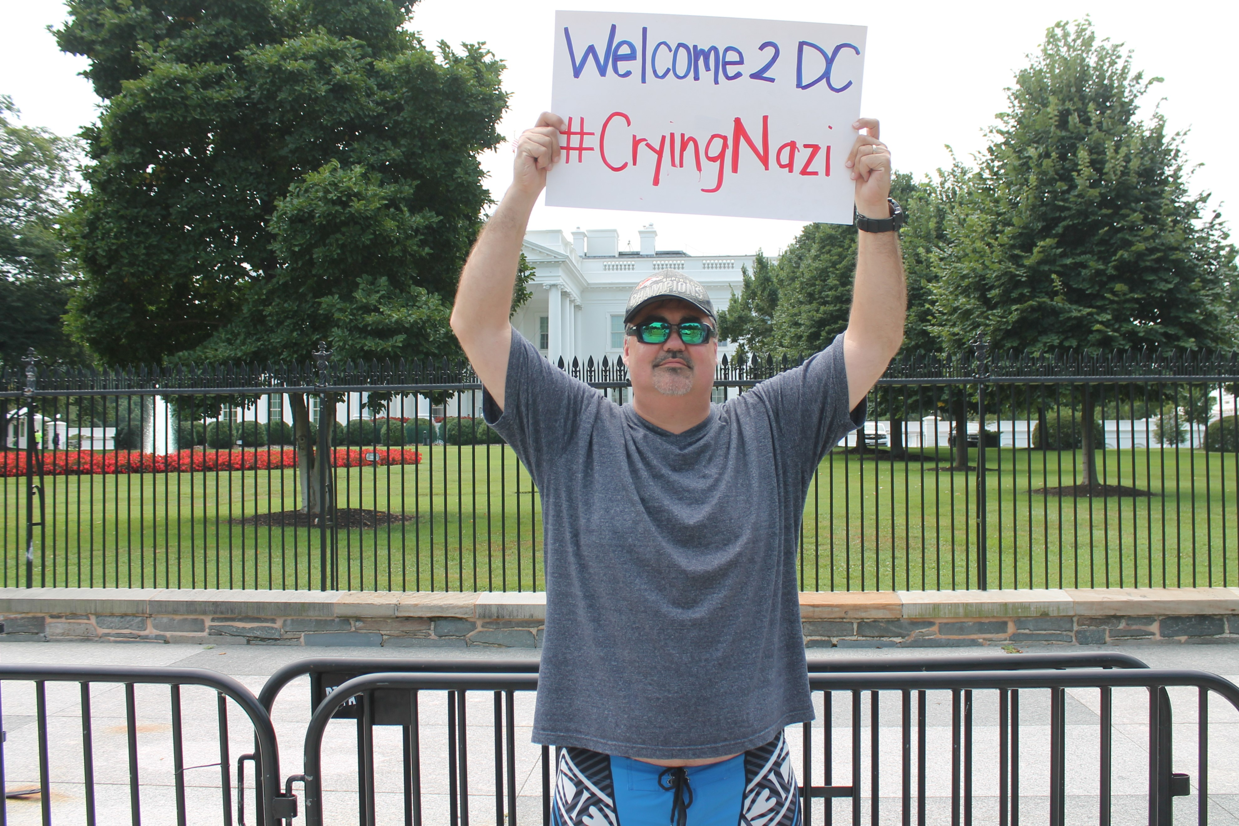 In front of the White House at 1600 Pennsylvania Avenue, NW, Washington DC on Saturday afternoon, 11 August 2018 by Elvert Barnes Photography OCCUPY LAFAYETTE PARK Trip to Washington DC for Day Before Unite The Right 2 Rally / March